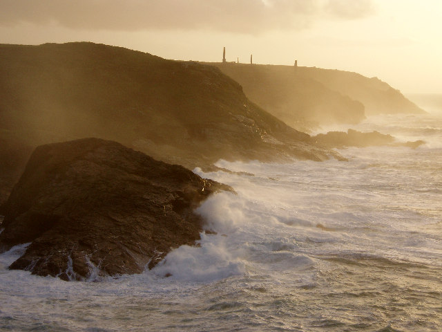 Storms on the Enys. Looking south west from Pendeen Watch, the chimneys of Levant Mine in the distance. The big rock in the foreground is the Enys (island).